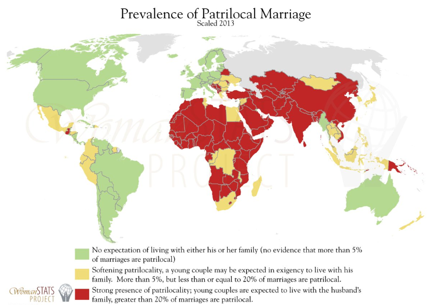 Prevalance of Patrilocal marriage